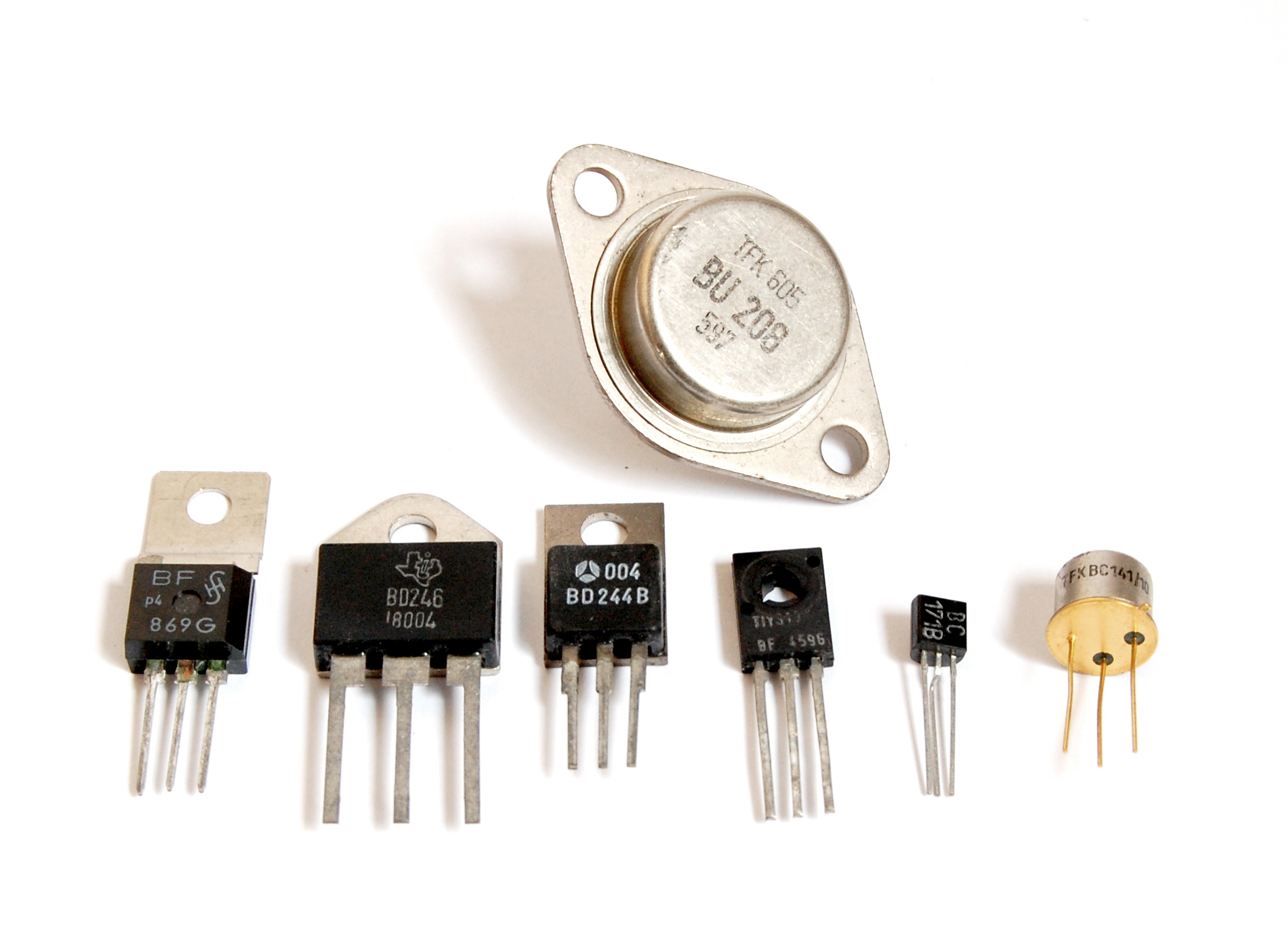 Transistors in different housings